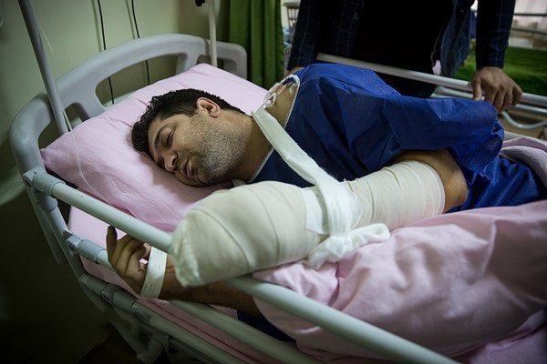 An Iranian police injured by groups of protesters amid 2019 fuel protests in Iran.